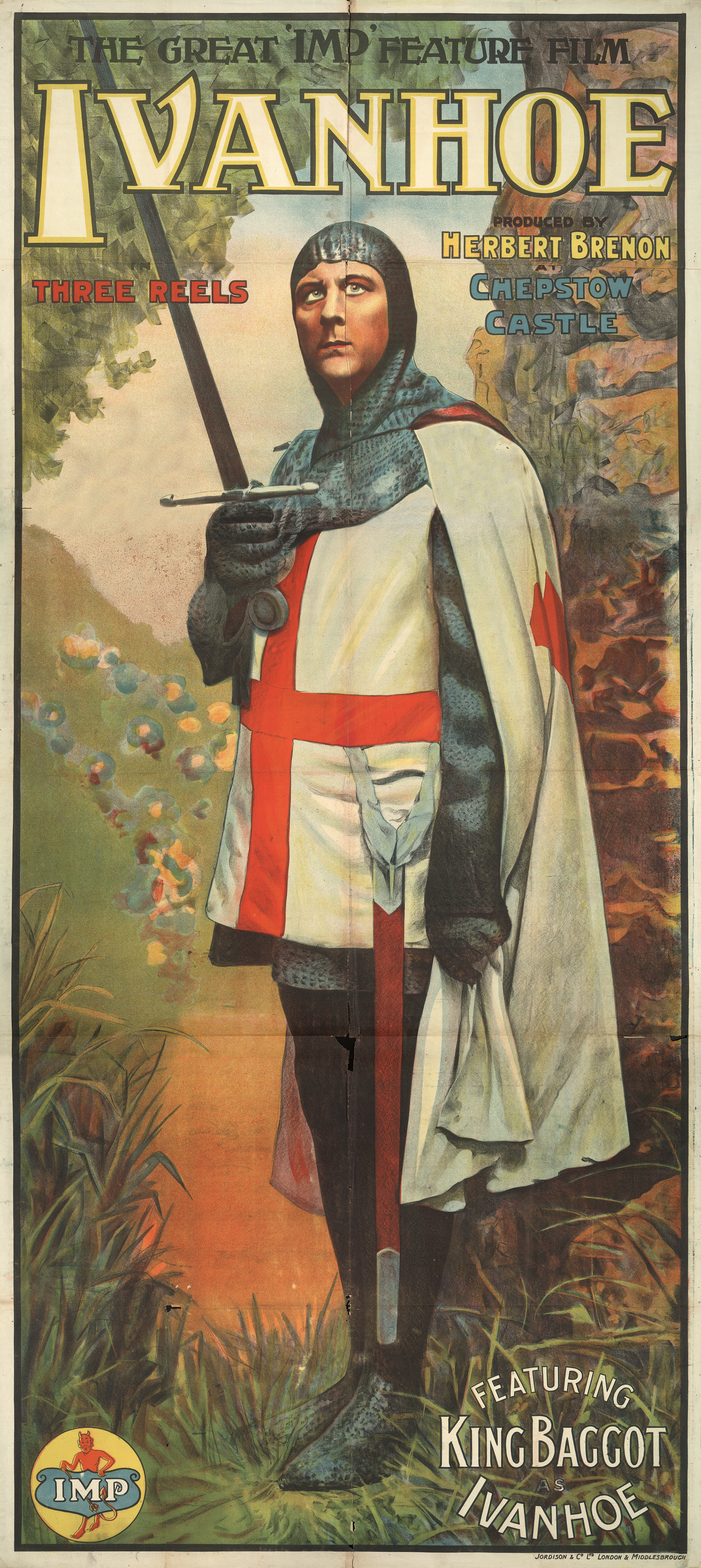 Motion picture poster for the 1913 film Ivanhoe, featuring actor King Baggot as Ivanhoe. London, Middlesbrough : Jordison & Co., Ltd.